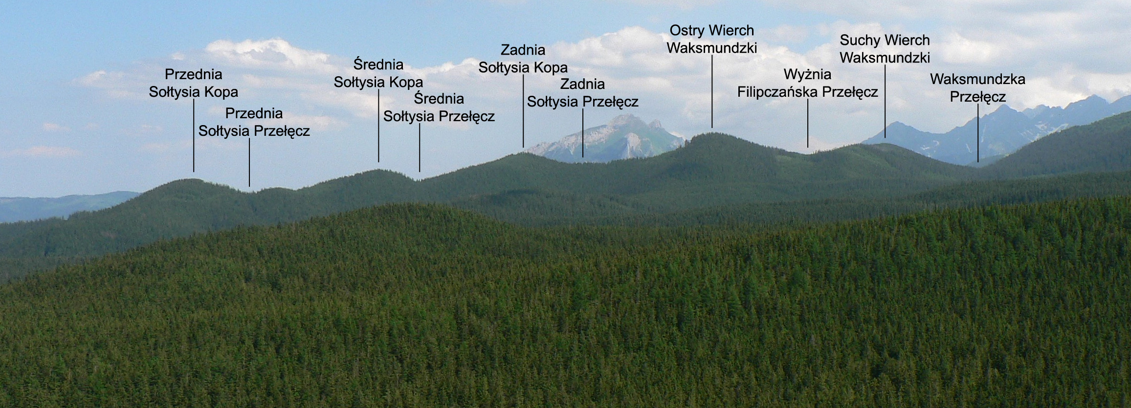 Kopy Sołtysie – view from Wielki Kopieniec.